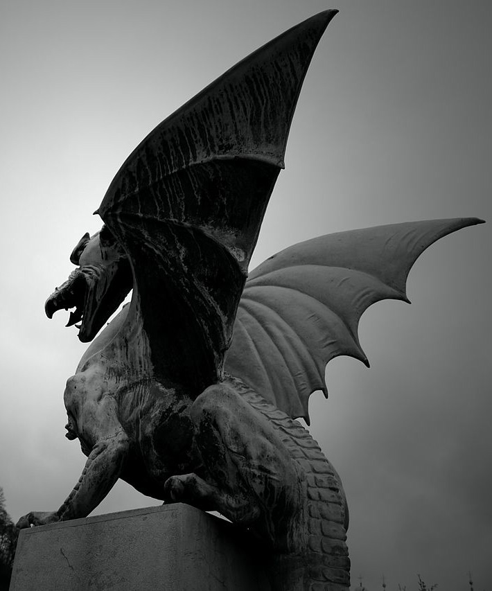 Dragon bridge. Ljubljana, Slovenia